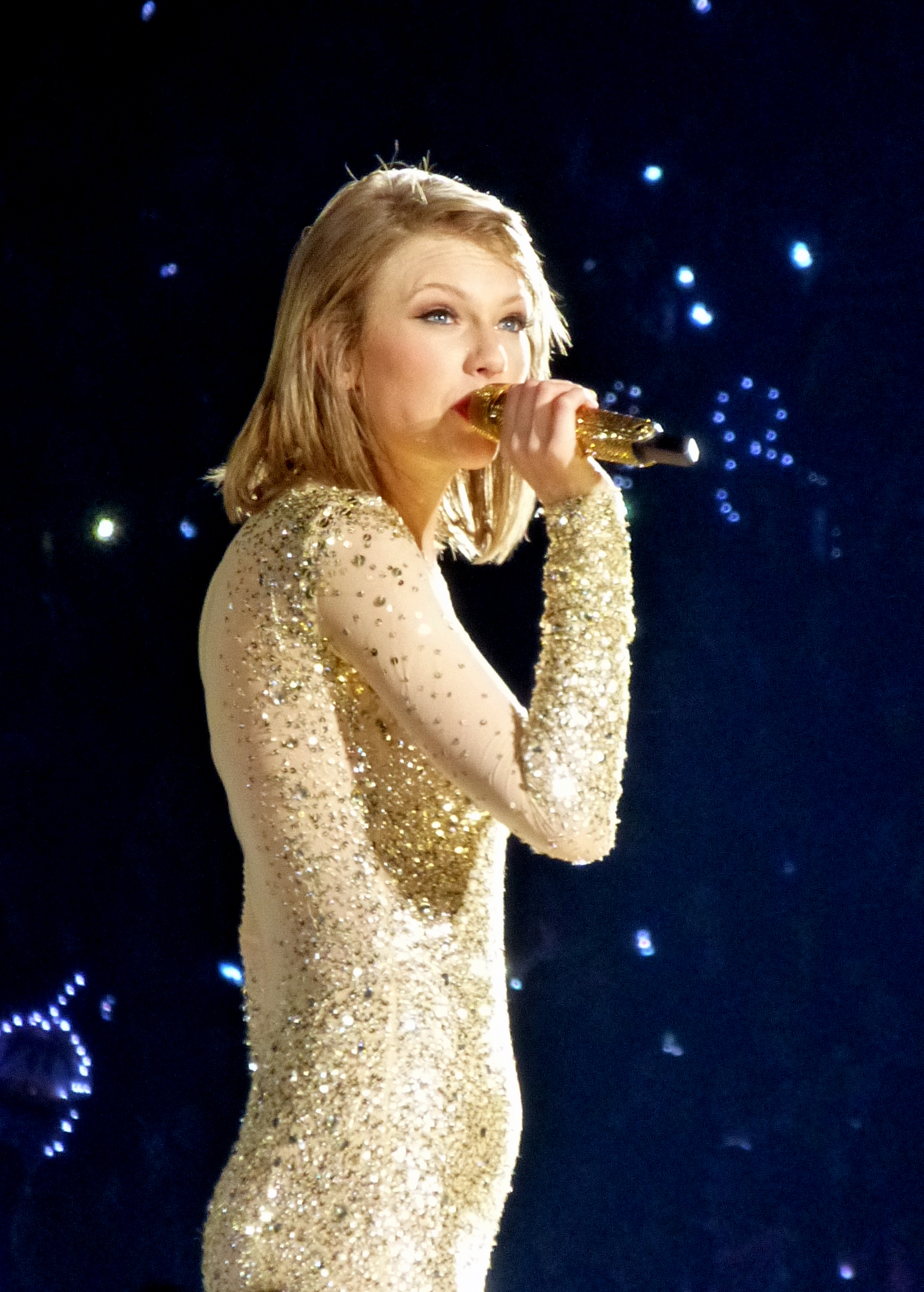 Taylor Swift 1989 Tour at Ford Field in Detroit, 5/30/15